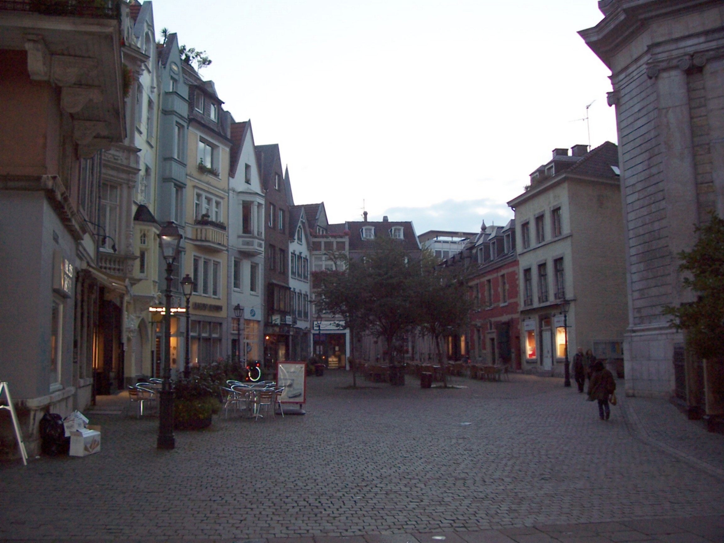 Downtown Aachen, close to the Public Hall